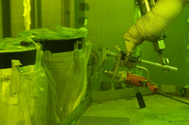 Remote manipulators are used to repackage waste inside a hot cell.